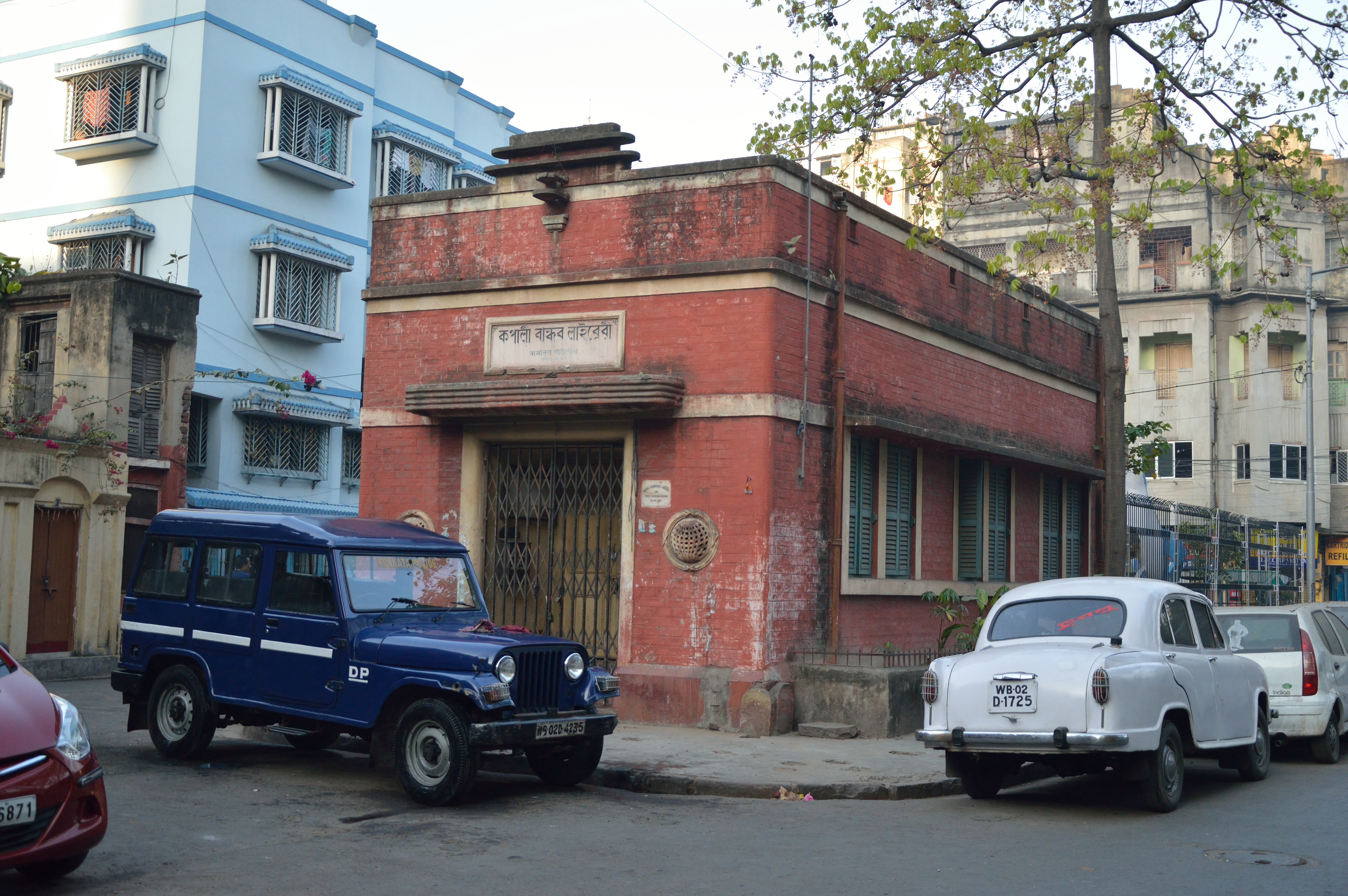 This photograph has been taken during the 'Wikipedia/Wikimedia Photowalk' event for the 'Wikipedia Takes Kolkata II' campaign on 3 March 2013, in Kolkata.